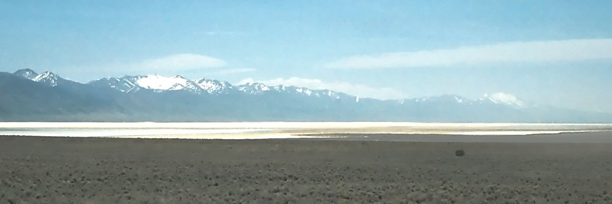 Diamond Valley in central Nevada, looking south from Sadler Brown Road. In the far distance at the upper right is Diamond Peak.